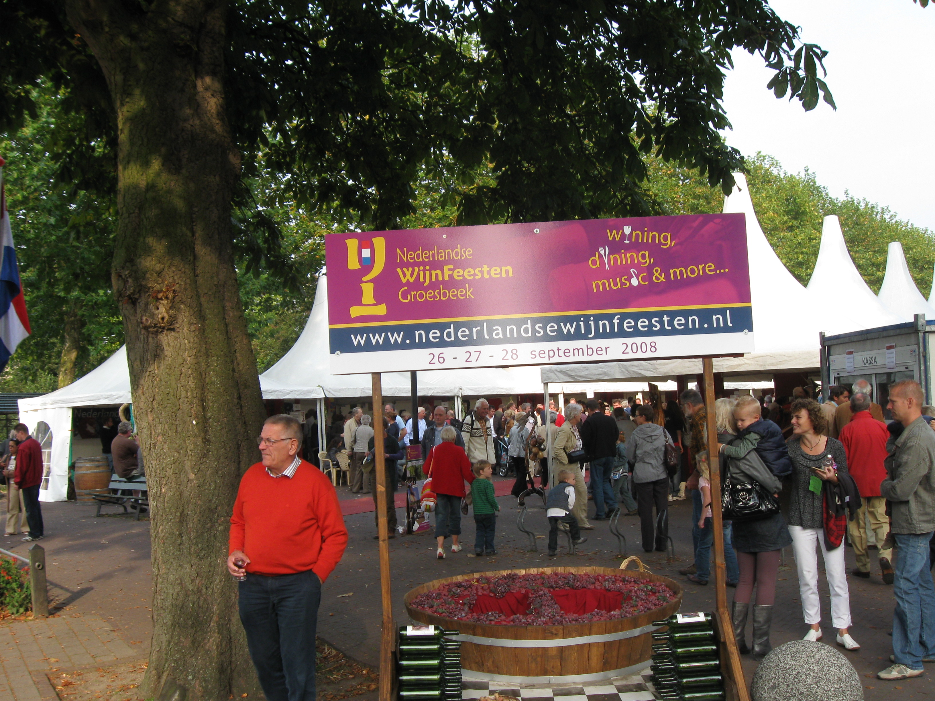 Annual wine harvest festival, 2nd edition 2008, Groesbeek, Netherlands